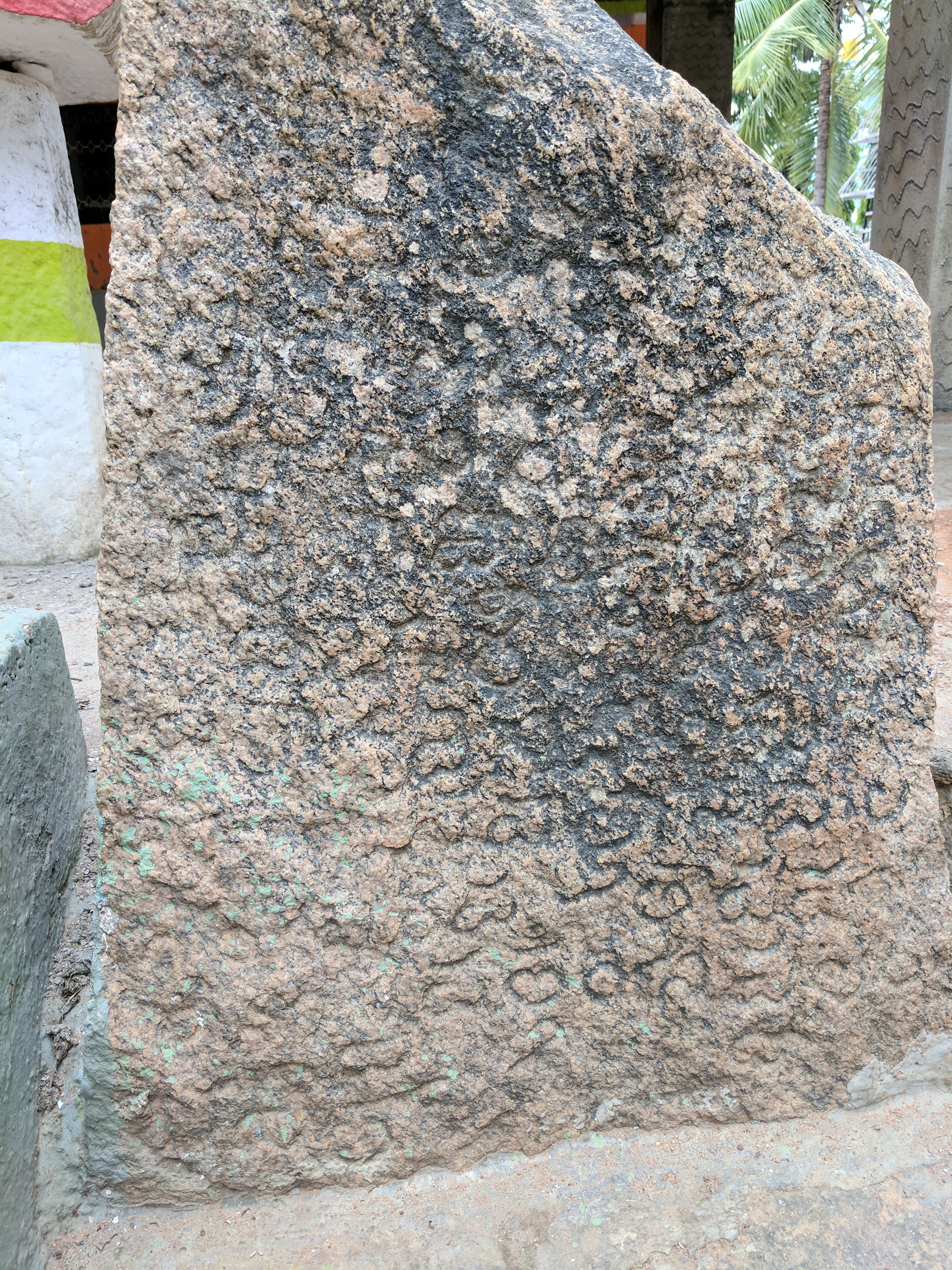 inscriptionstonesofbangalore